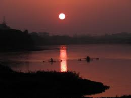 Mula River At Sunset